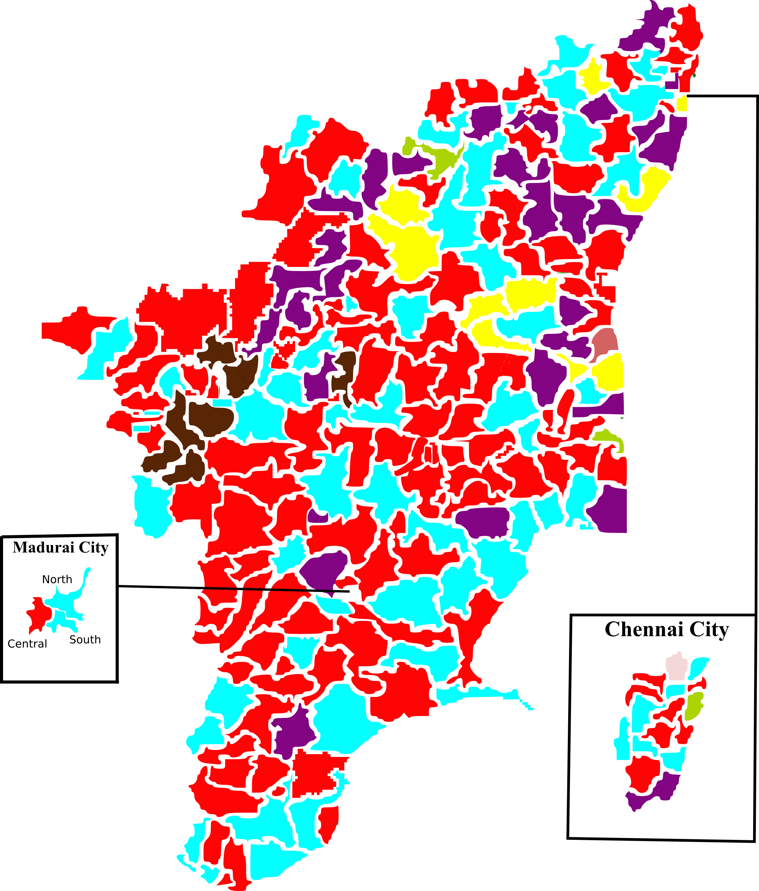 made election map using borders from ECI website using Inkscape. Source for the data is from the table posted in the main election page. Color key is on the main election page in the table.